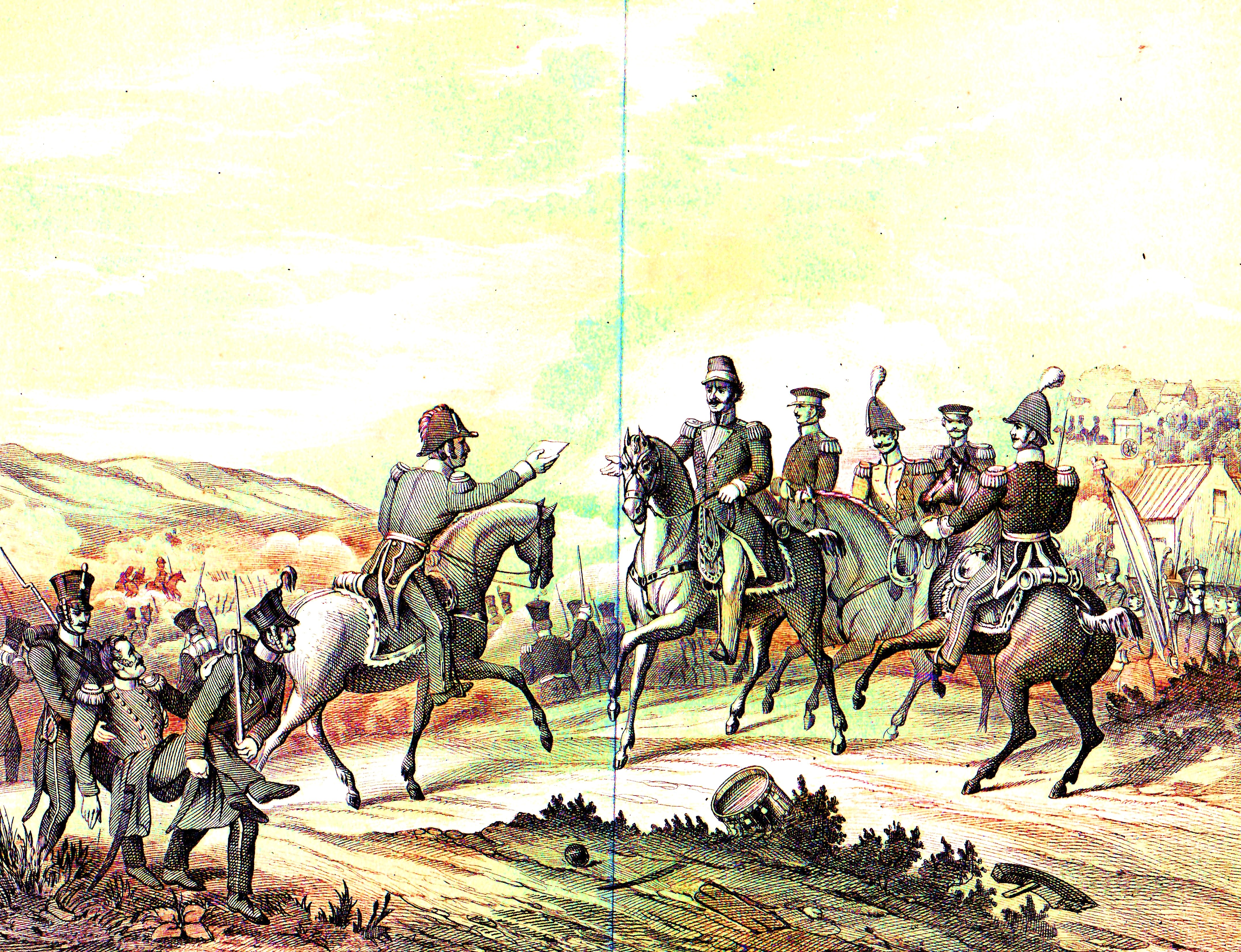 Hertog van Saksen Weimar